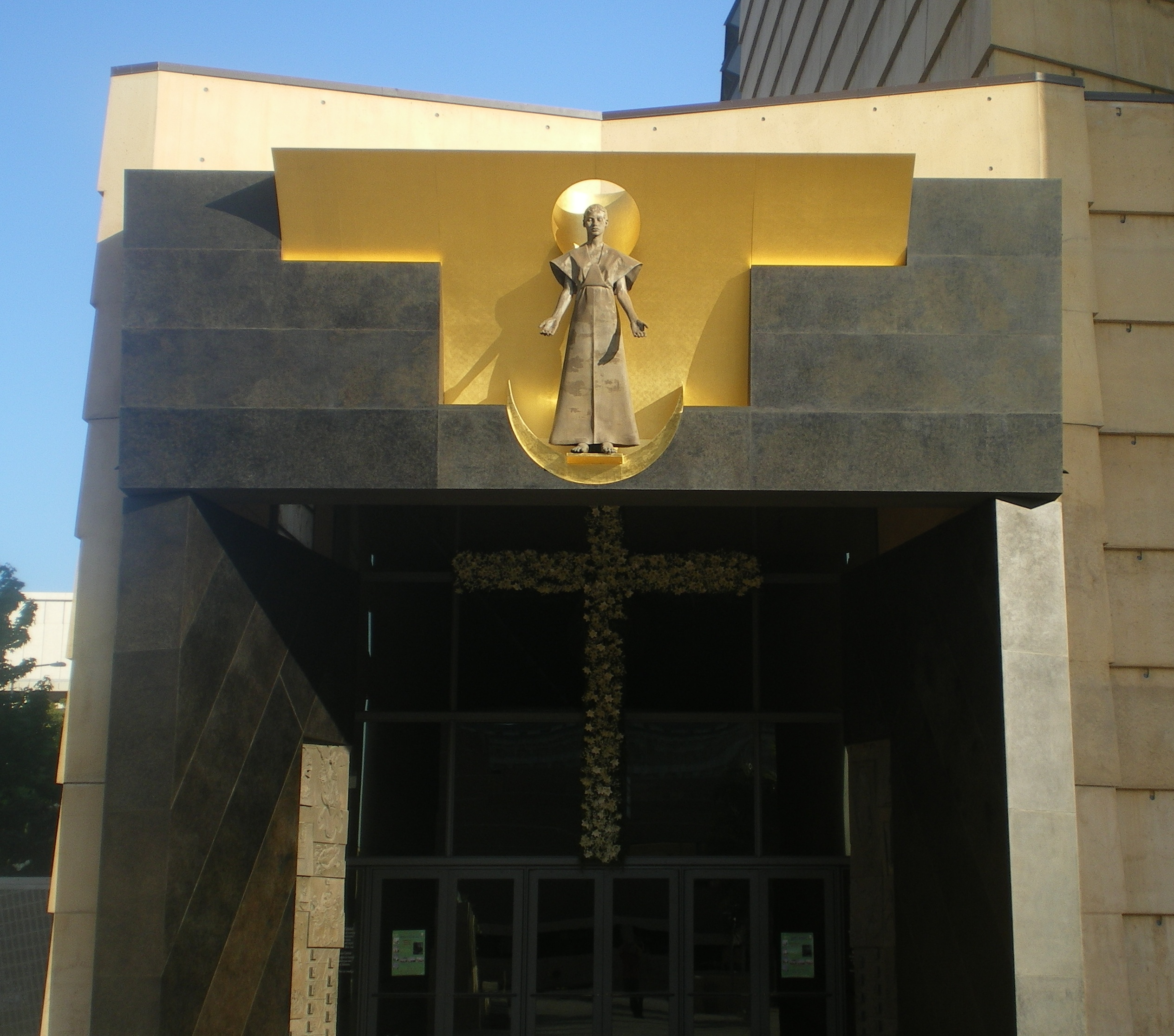 Entrance to Cathedral of Our Lady of Angels, Los Angeles